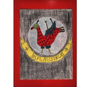 The Hooting Yard Logo. This is the Emblem of Hooting Yard, it's going to be used for an article about Frank Key, the British Author. Frank has requested that I use this logo instead of a photo of him.